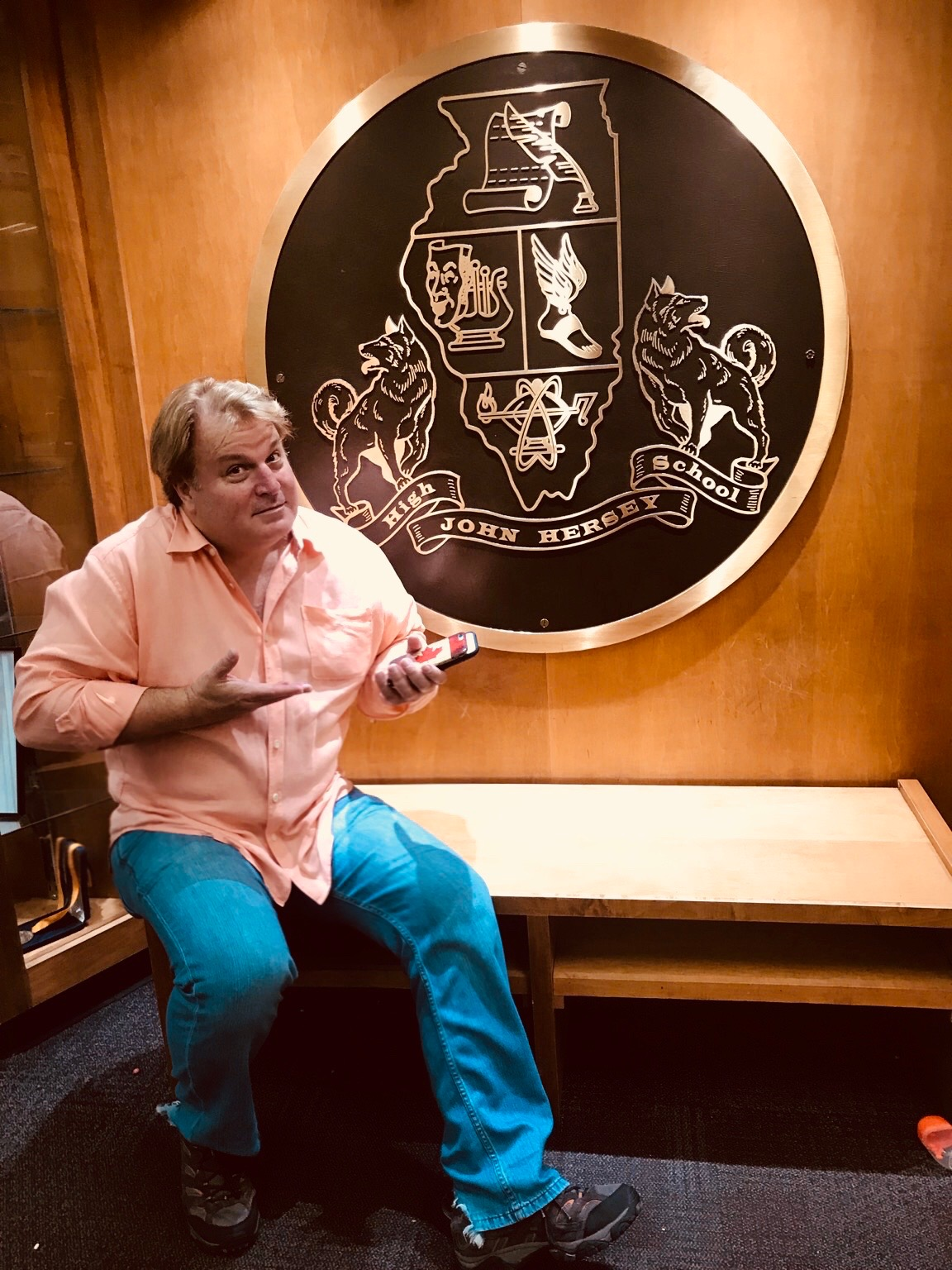 Jim Michaels